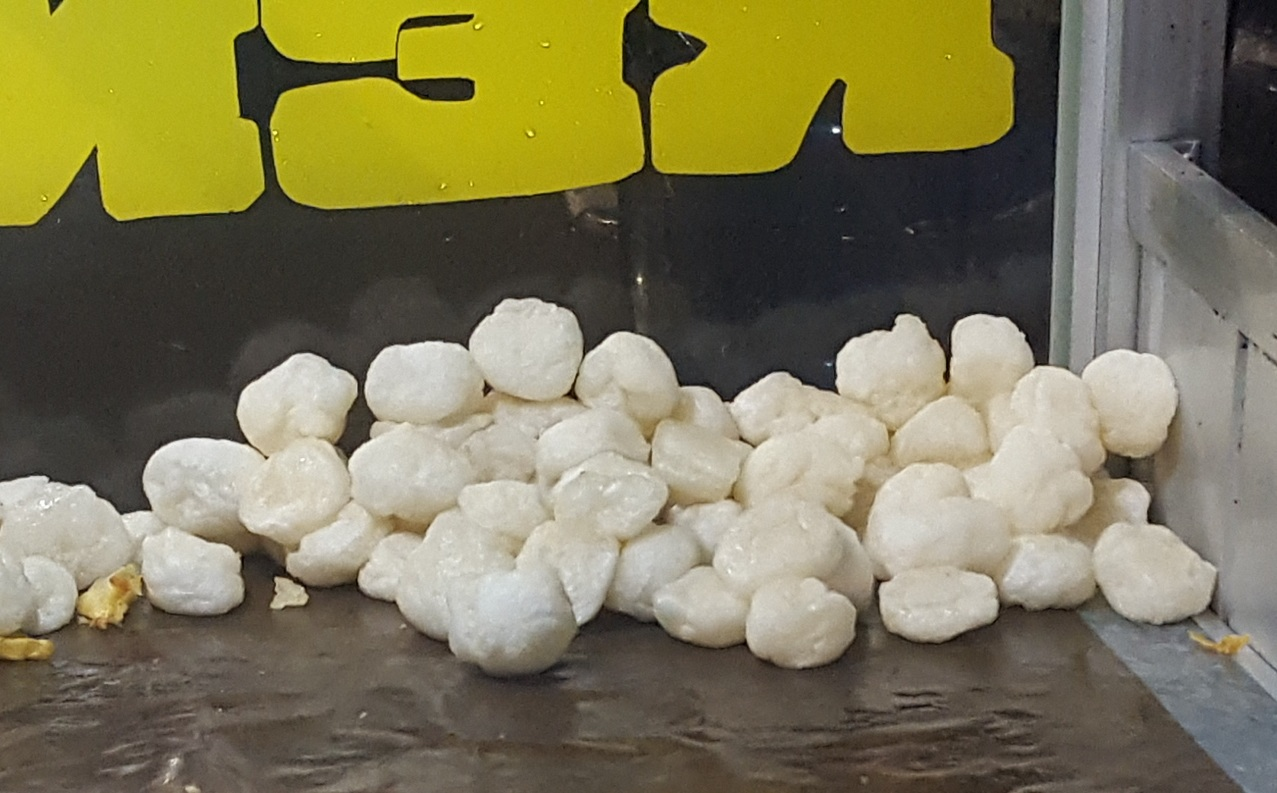 cimol indonesian west java snack